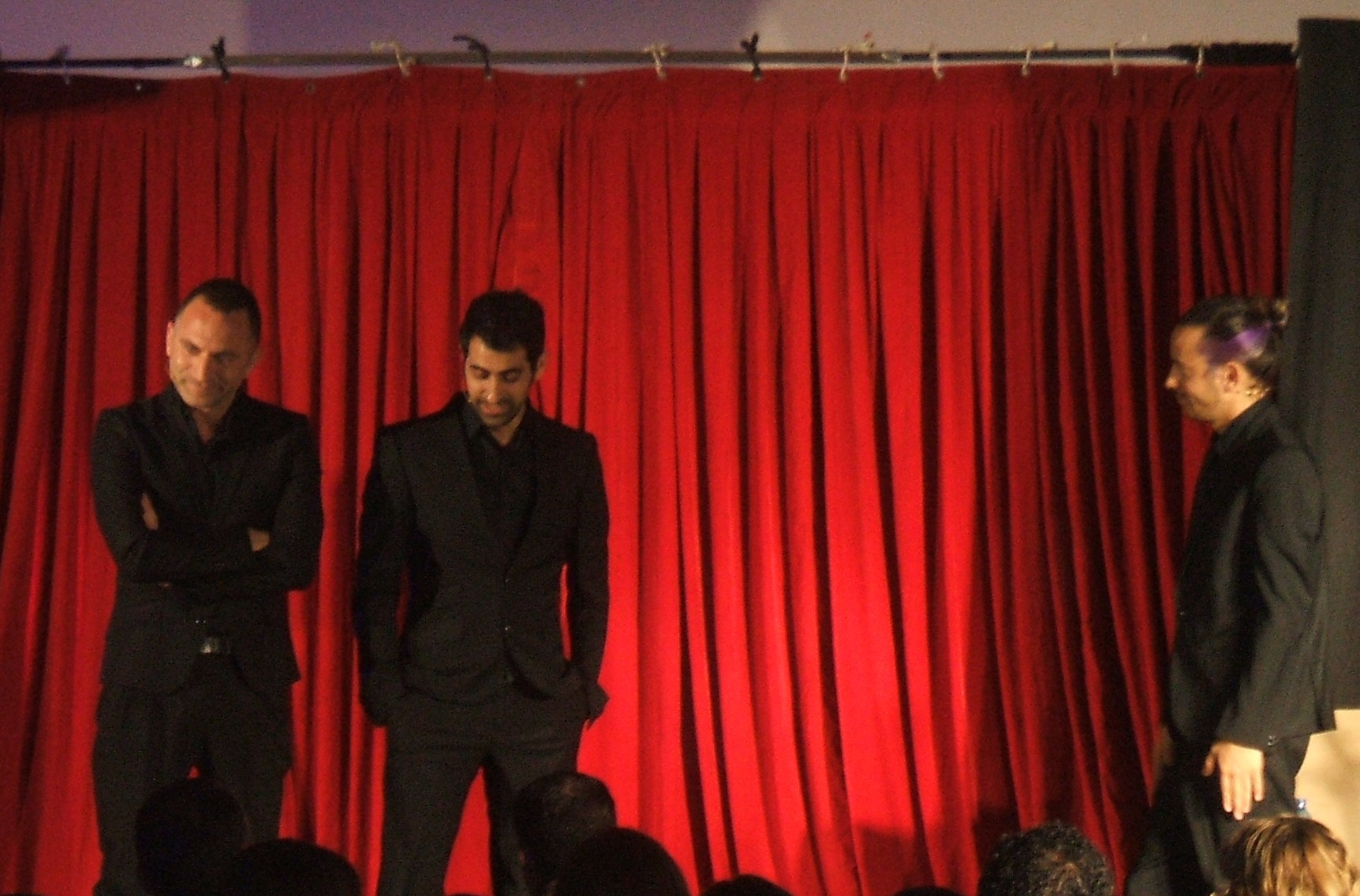 Ma Kashur trio